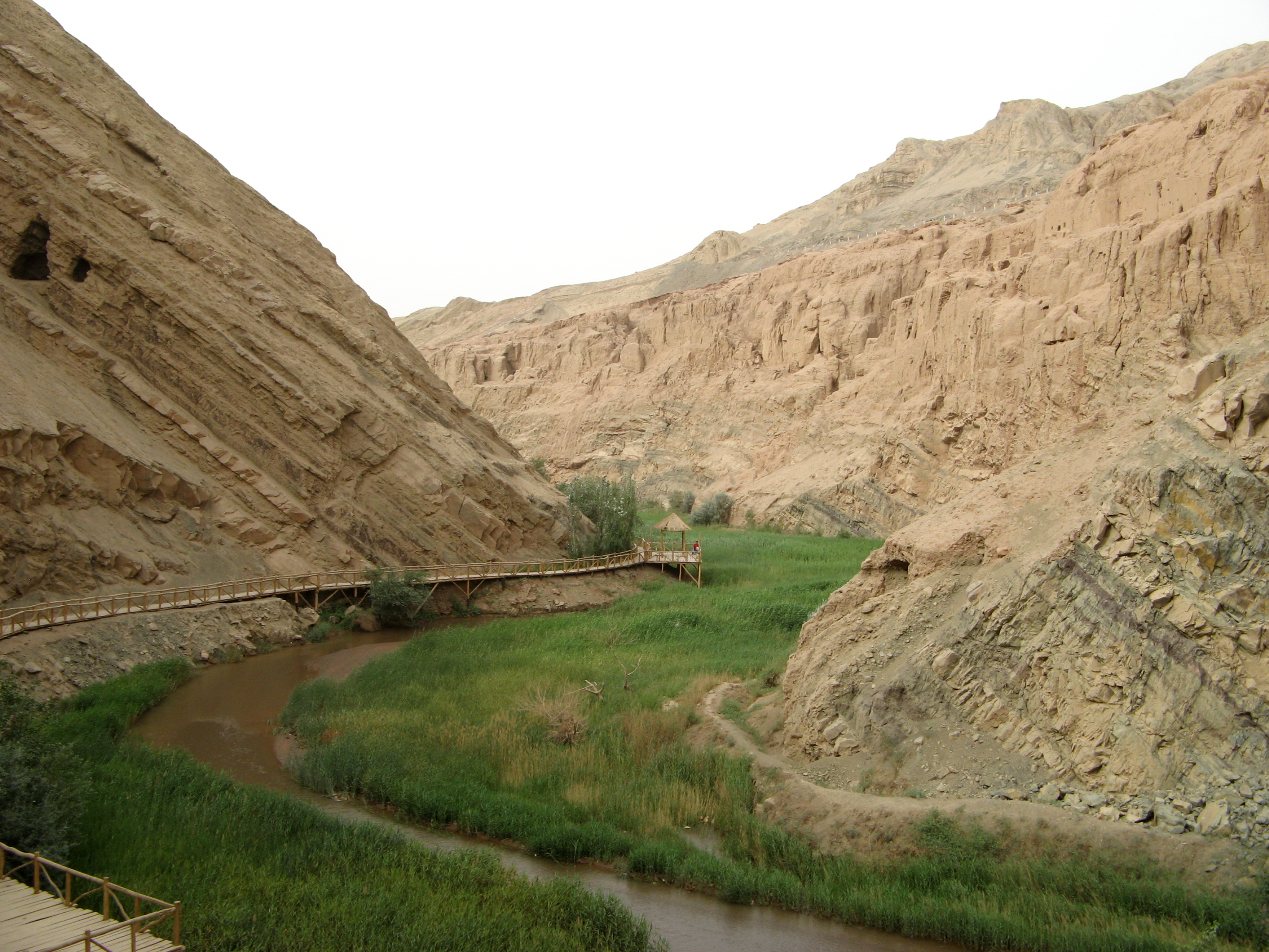 Toyuq Buddhist Caves. Near Turpan, in Xinjiang The Buddhist grottoes at Toyuq date from the 5th to the 10th centuries AD, when the Uighurs converted to Islam. The river, winding down from the mountains, would have provided water and greenery to sustain the resident monks.